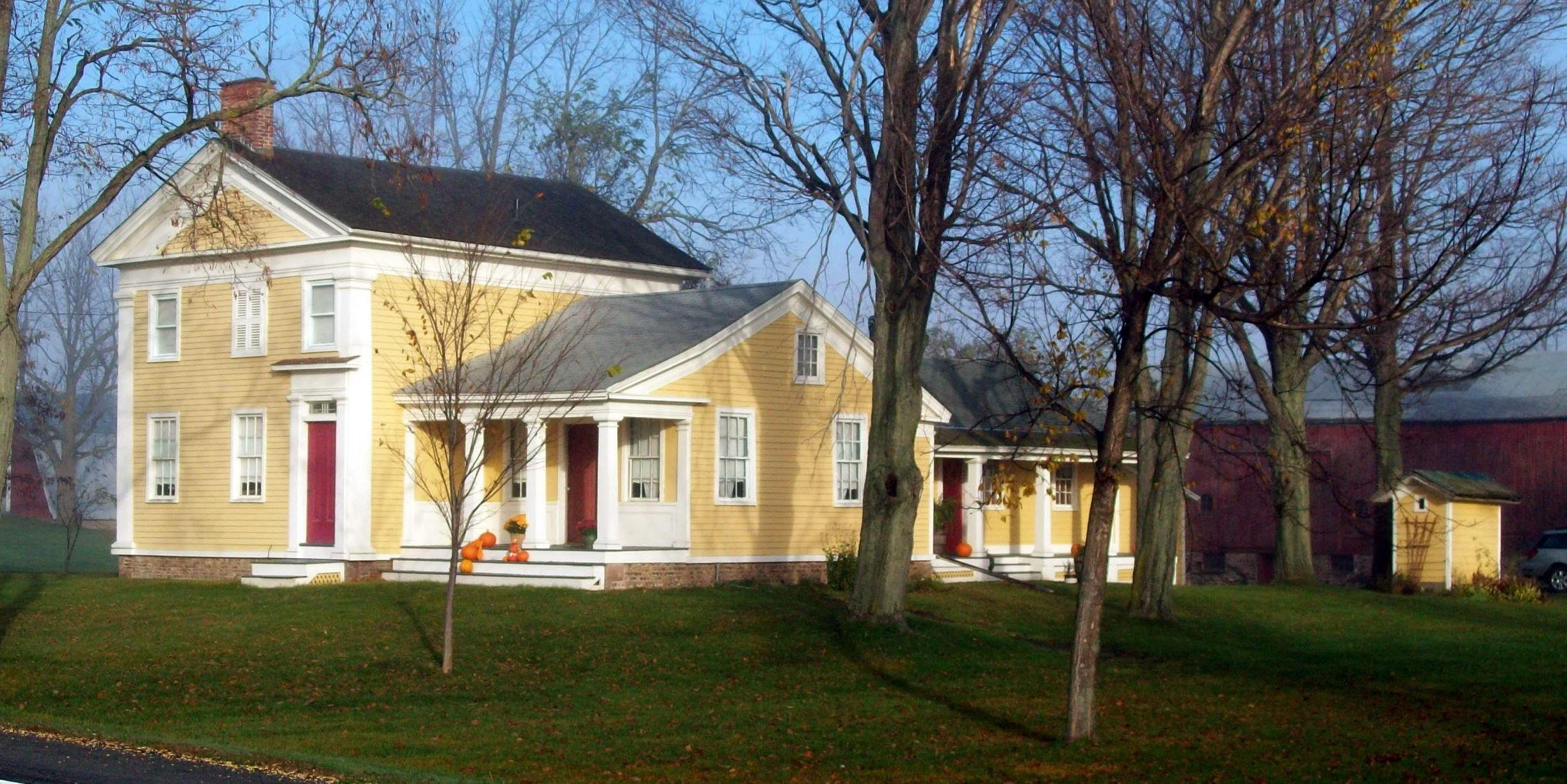 Benjamin Franklin Gates House, Barre NY, November 2010